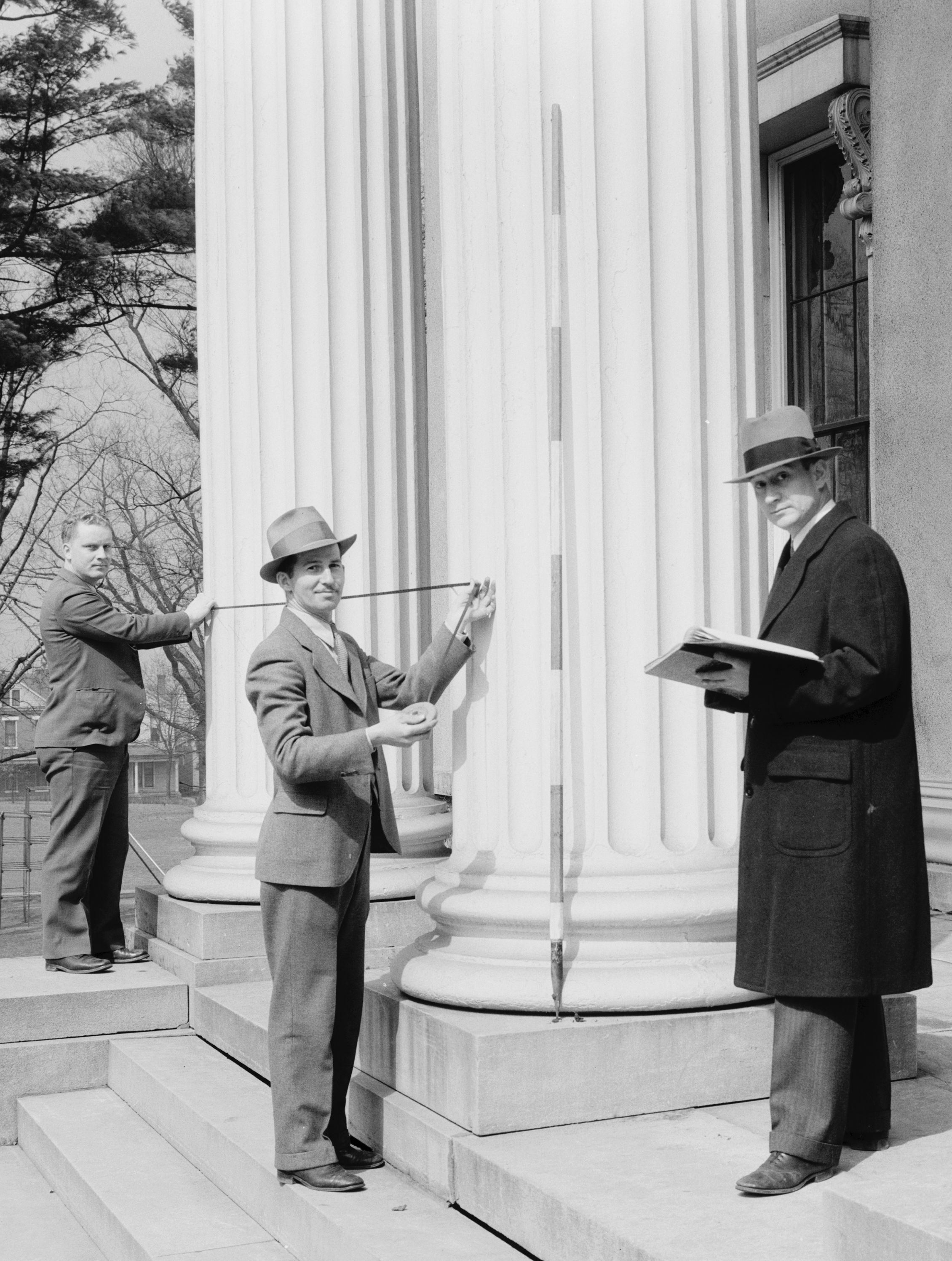 Historic American Buildings Survey team, measuring the Kentucky School for the Blind, 1867 Frankfort Avenue, Louisville, Jefferson County, KY. . Image has been cropped to highlight architects at work.